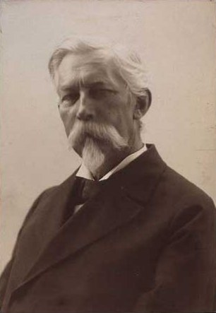 Andreas Peschcke Køedt (1845-1929), Danish businessman and politician, MP